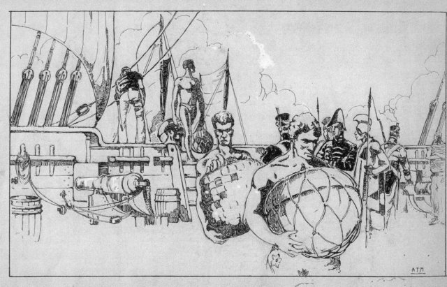 USS Sir Andrew Hammond at Honolulu, 1814, ink drawing by Arman Manookian, Honolulu Academy of Arts